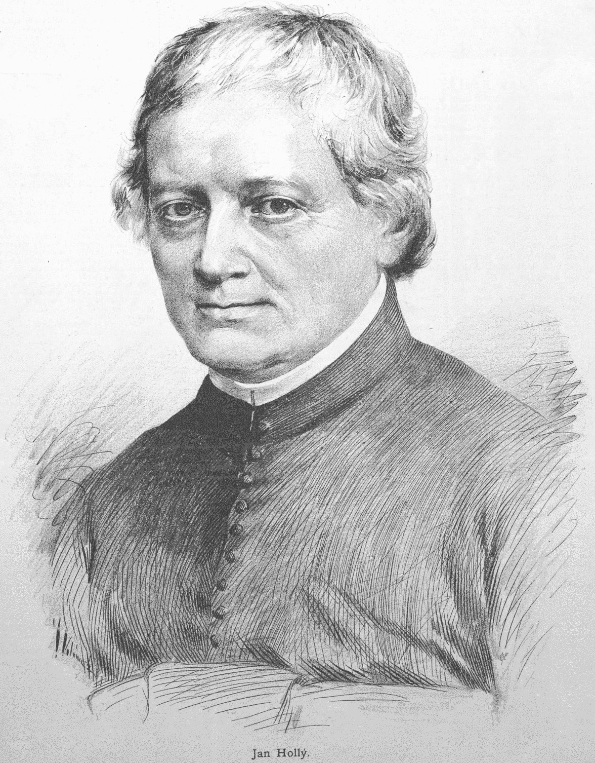 Portrait of Ján Hollý, Slovak writer.